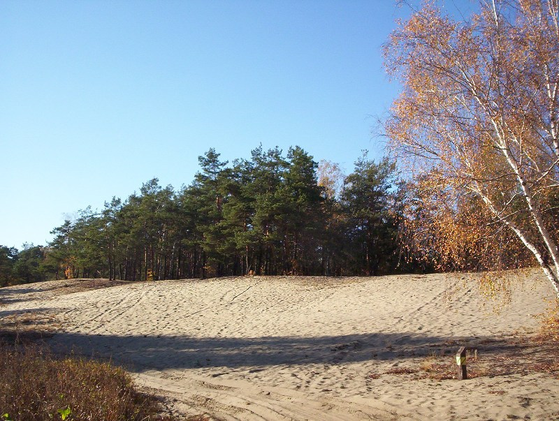 Dunes in Międzyborów, Poland.